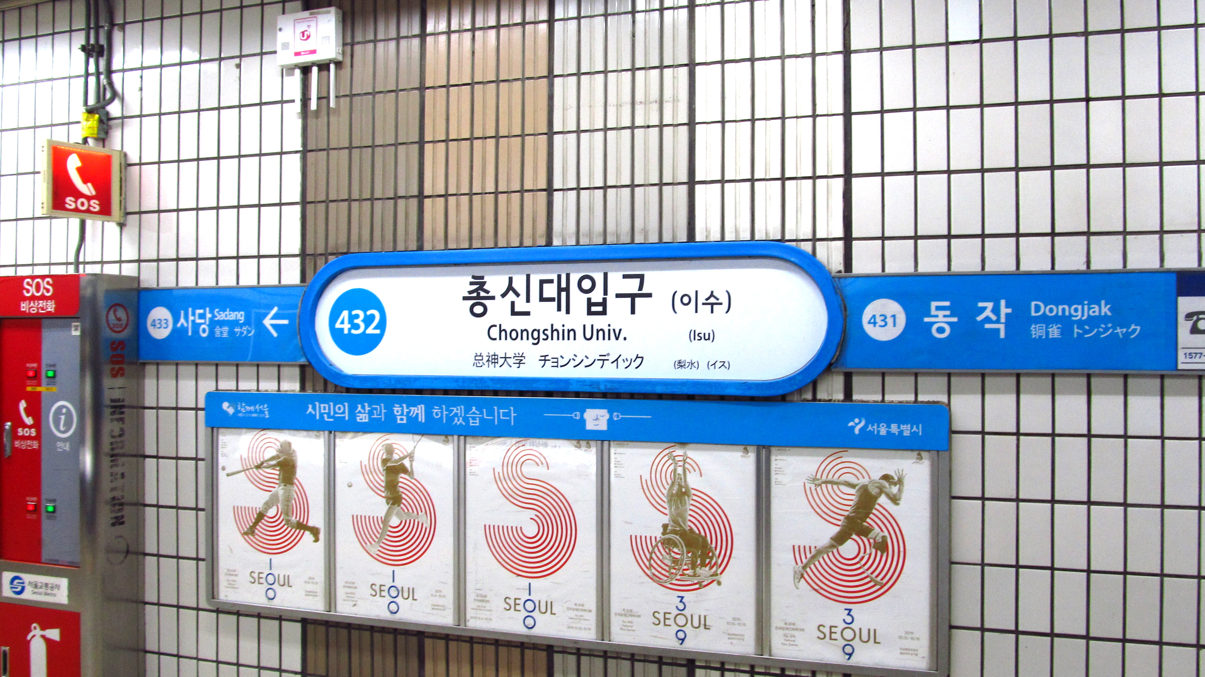 A sign of Chongshin University Station on Seoul Subway Line 4